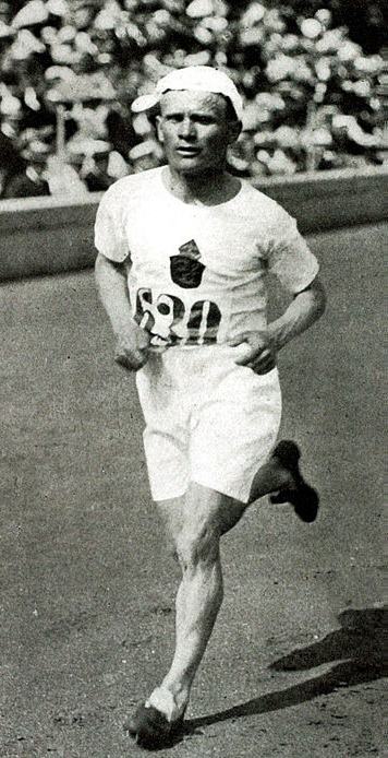 Sport, Athletics, 1912 Olympic Games in Stockholm, Mens 10,000 metres Heat 3, pic: 7th July 1912, Tatu Kolehmainen.